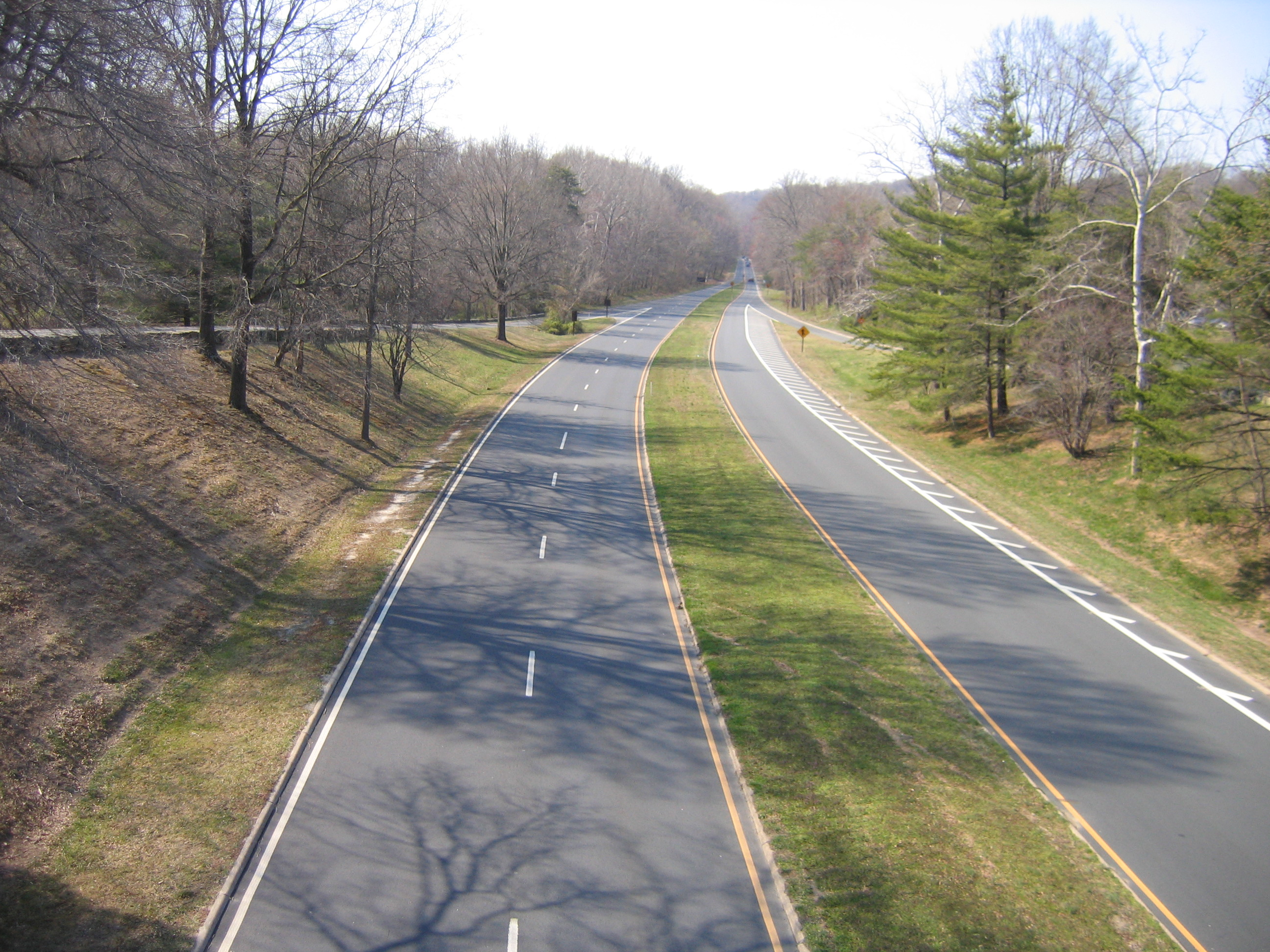 Clara Barton Parkway as viewed from an overpass at the access to the Naval Surface Warfare Center Carderock Division located at the David Taylor Model Basin. This image is oriented eastward.